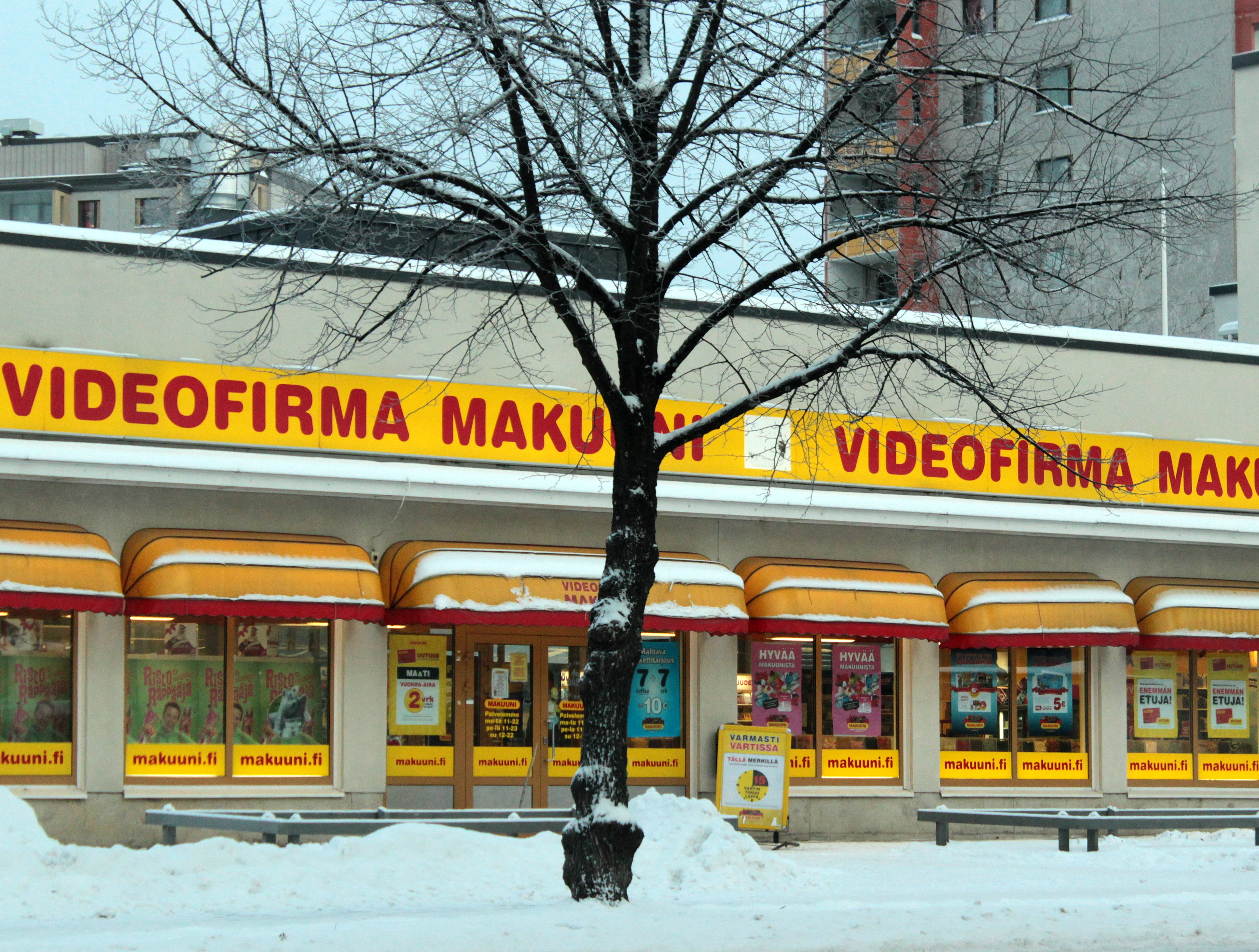 Makuuni video shop in Tuira, Oulu.